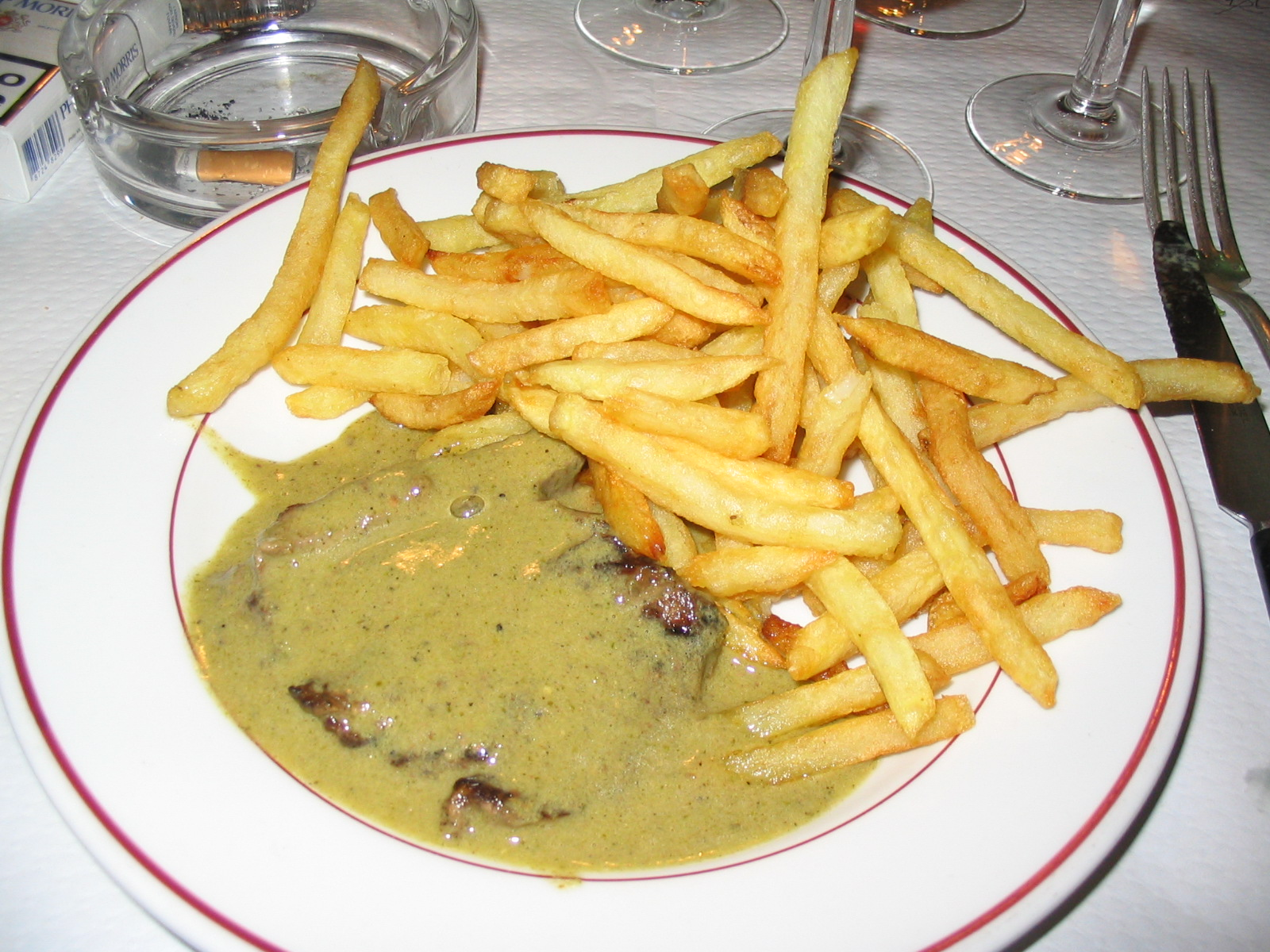 plate at the "Relais de Venise" in Paris.